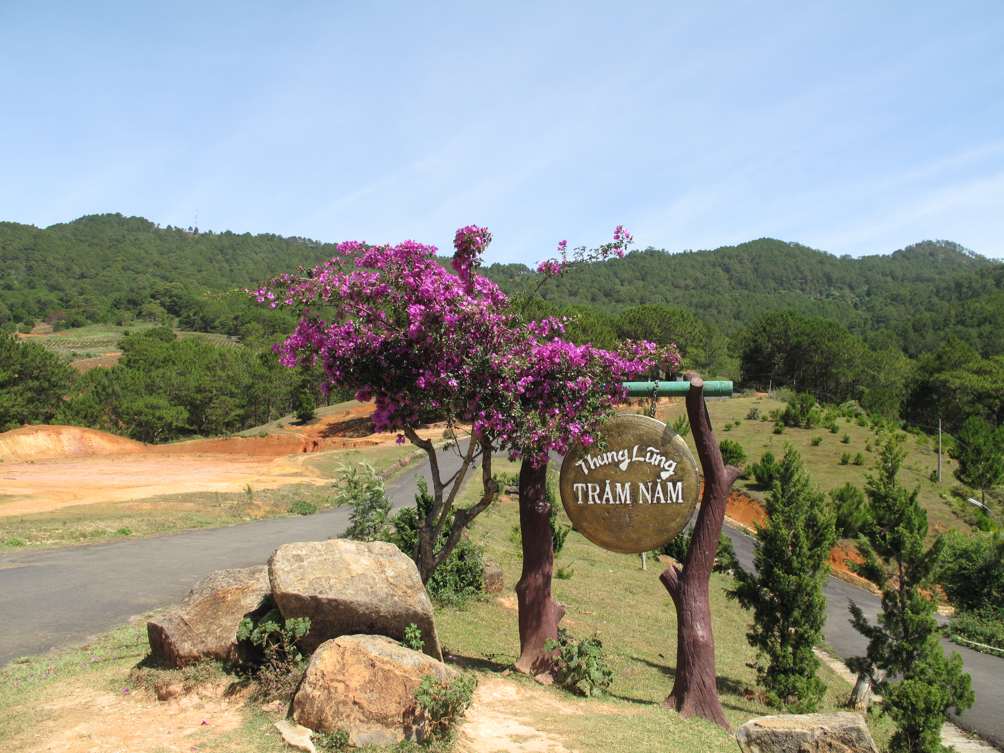 A valley called "Thung Lung Tram Nam" (A Hundred Year Valley), located in Langbiang Mountain, Lac Duong Dist., Lam Dong Province, Vietnam